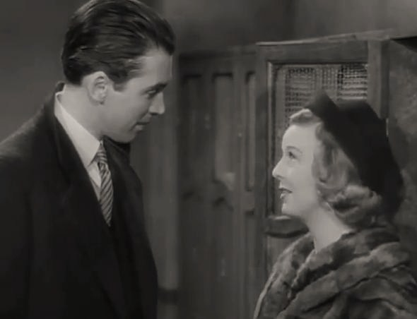 Cropped screenshot of the trailer for the film The Shop Around the Corner